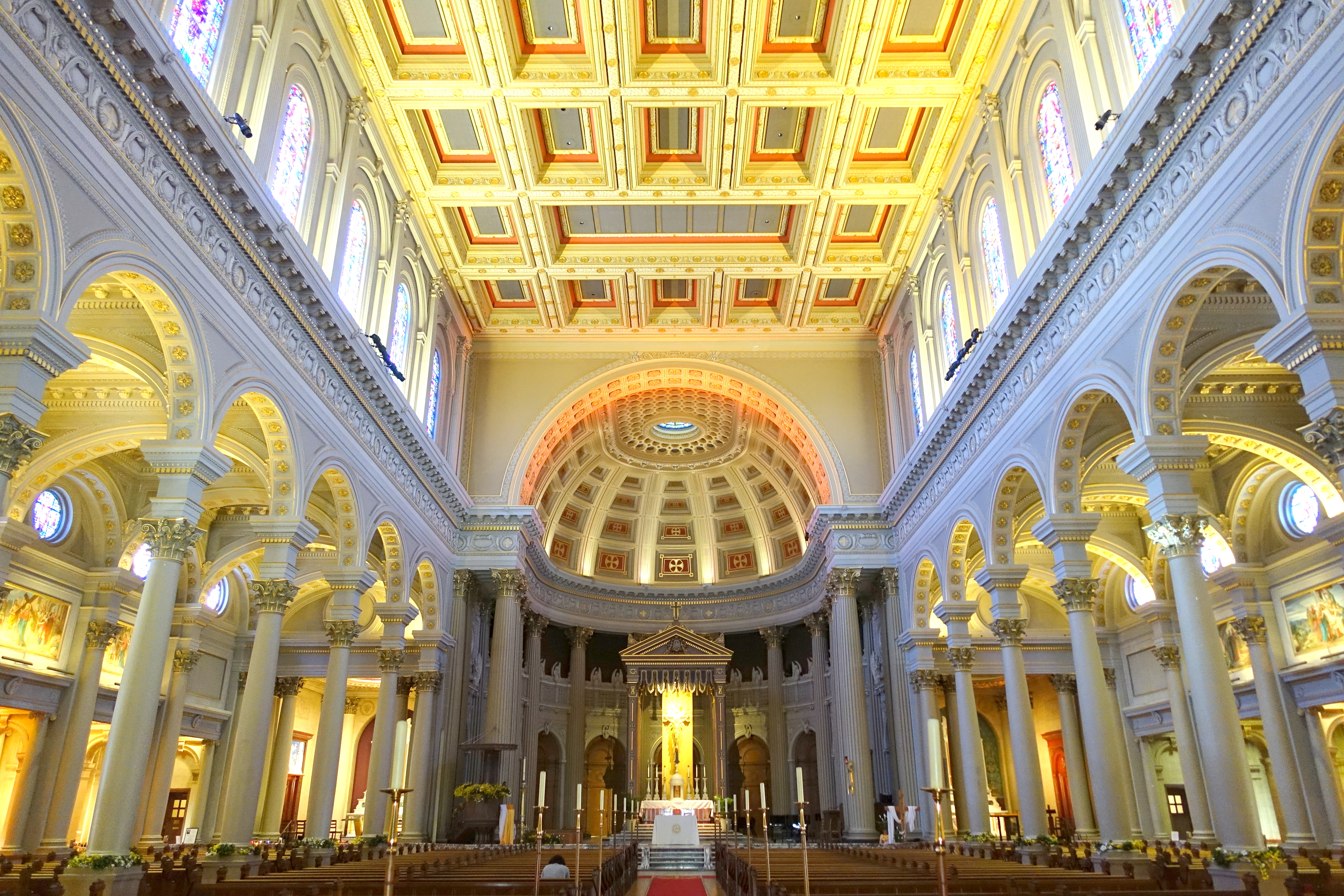 Interior view of Saint Ignatius Church, San Francisco, California, USA.